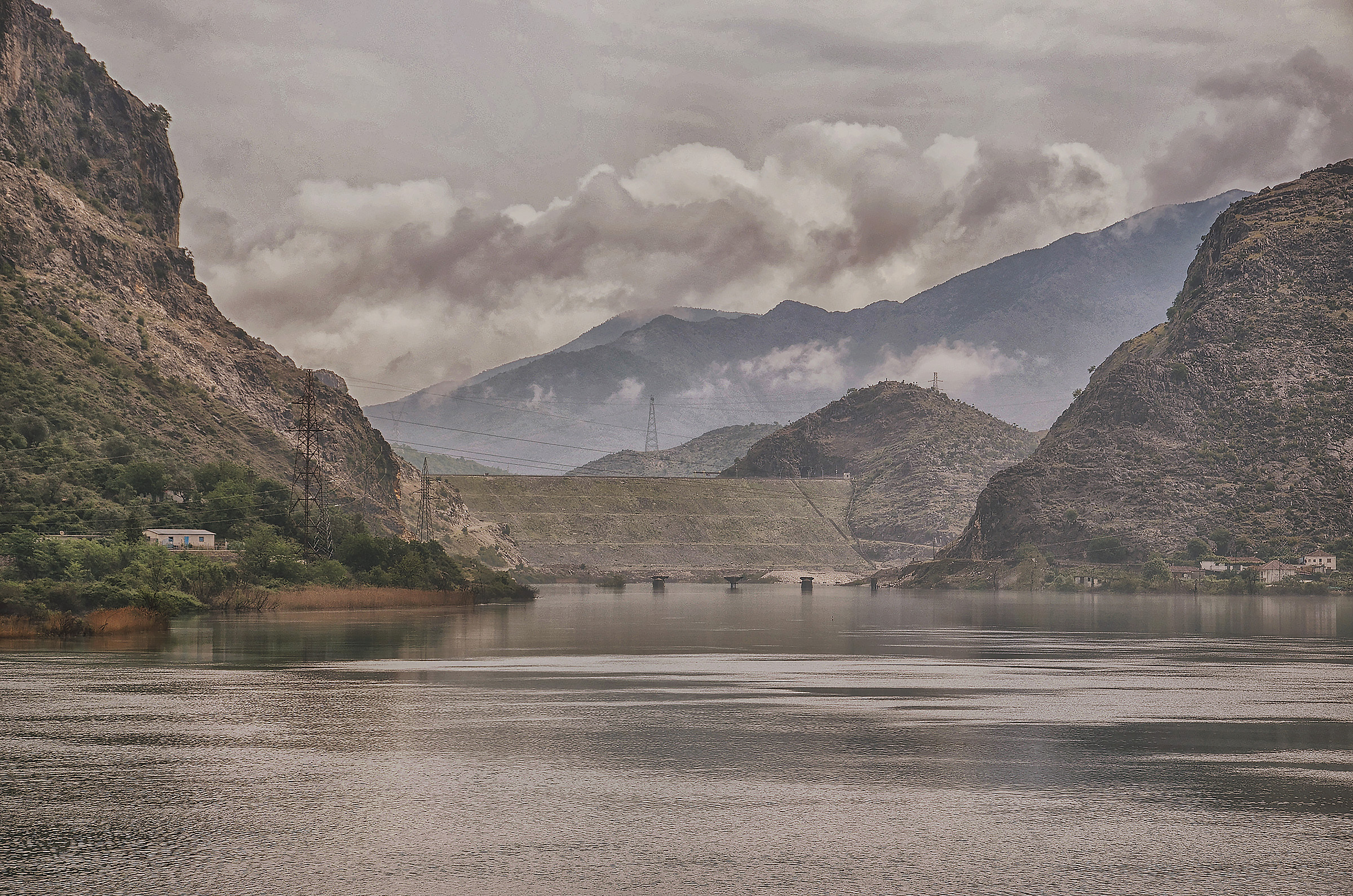 The northern dam in Vau i Dejës, Albania